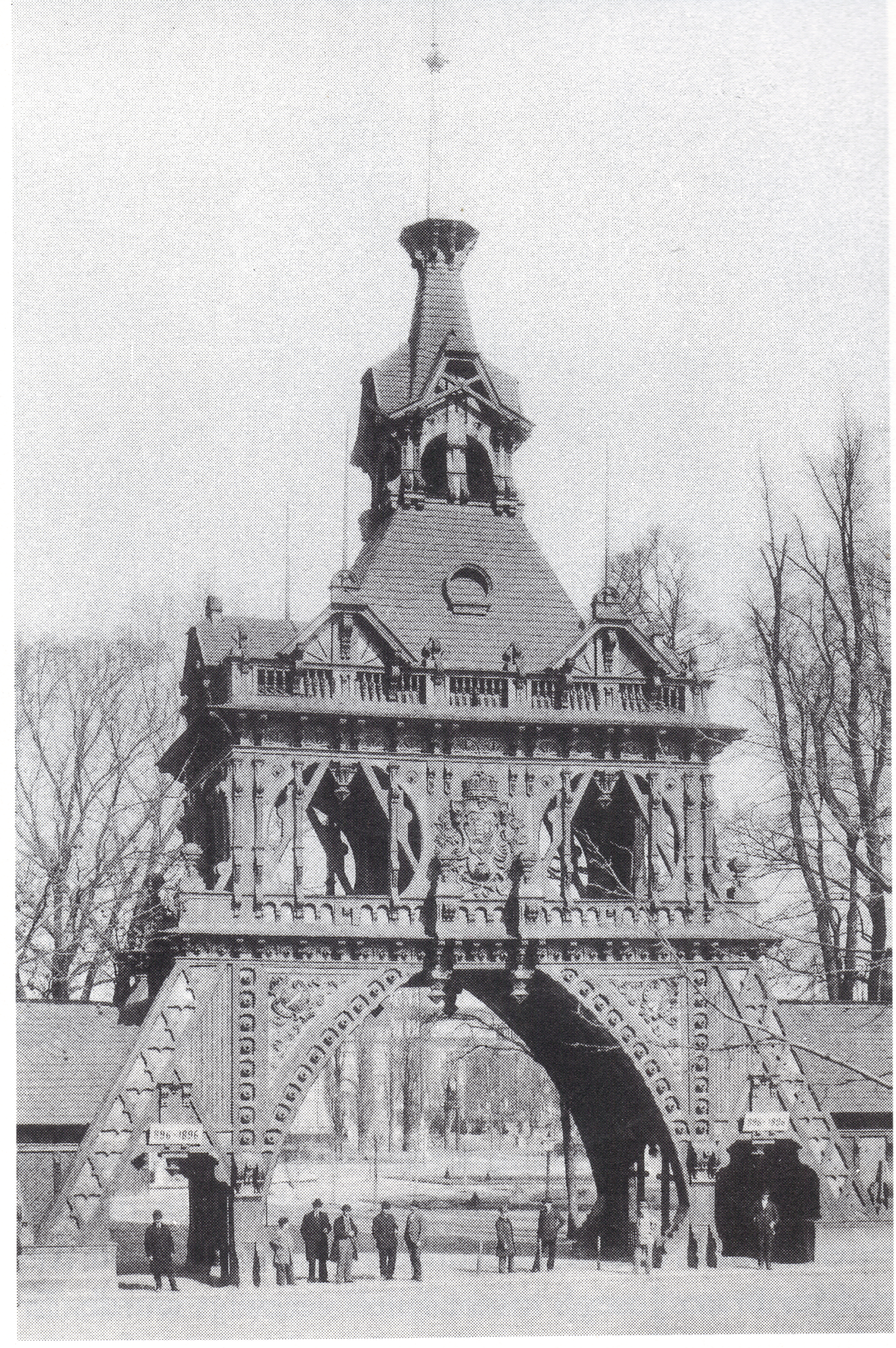 One of the main gates to Budapest's Millennium Exhibition of 1896